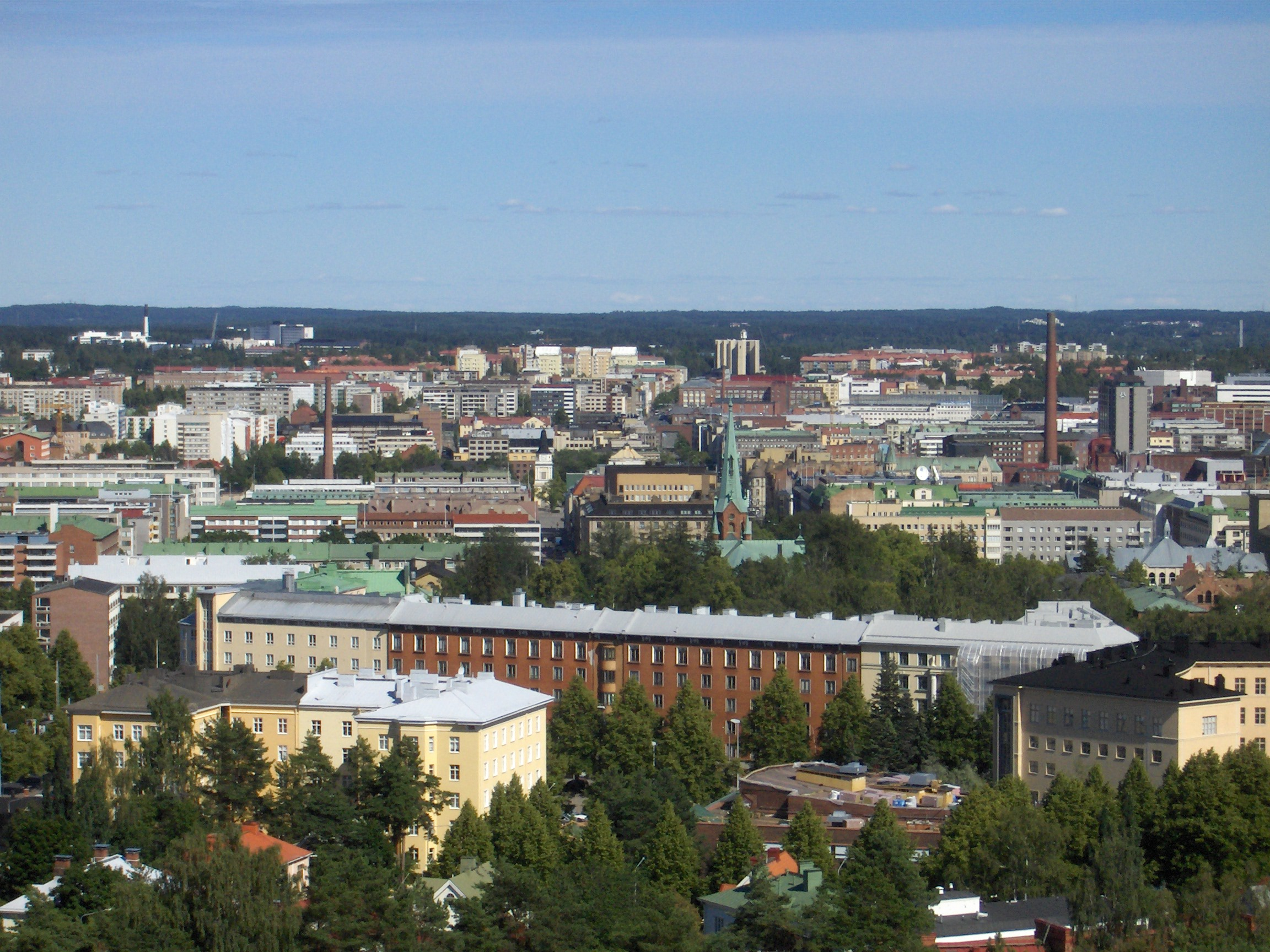 Downtown Tampere